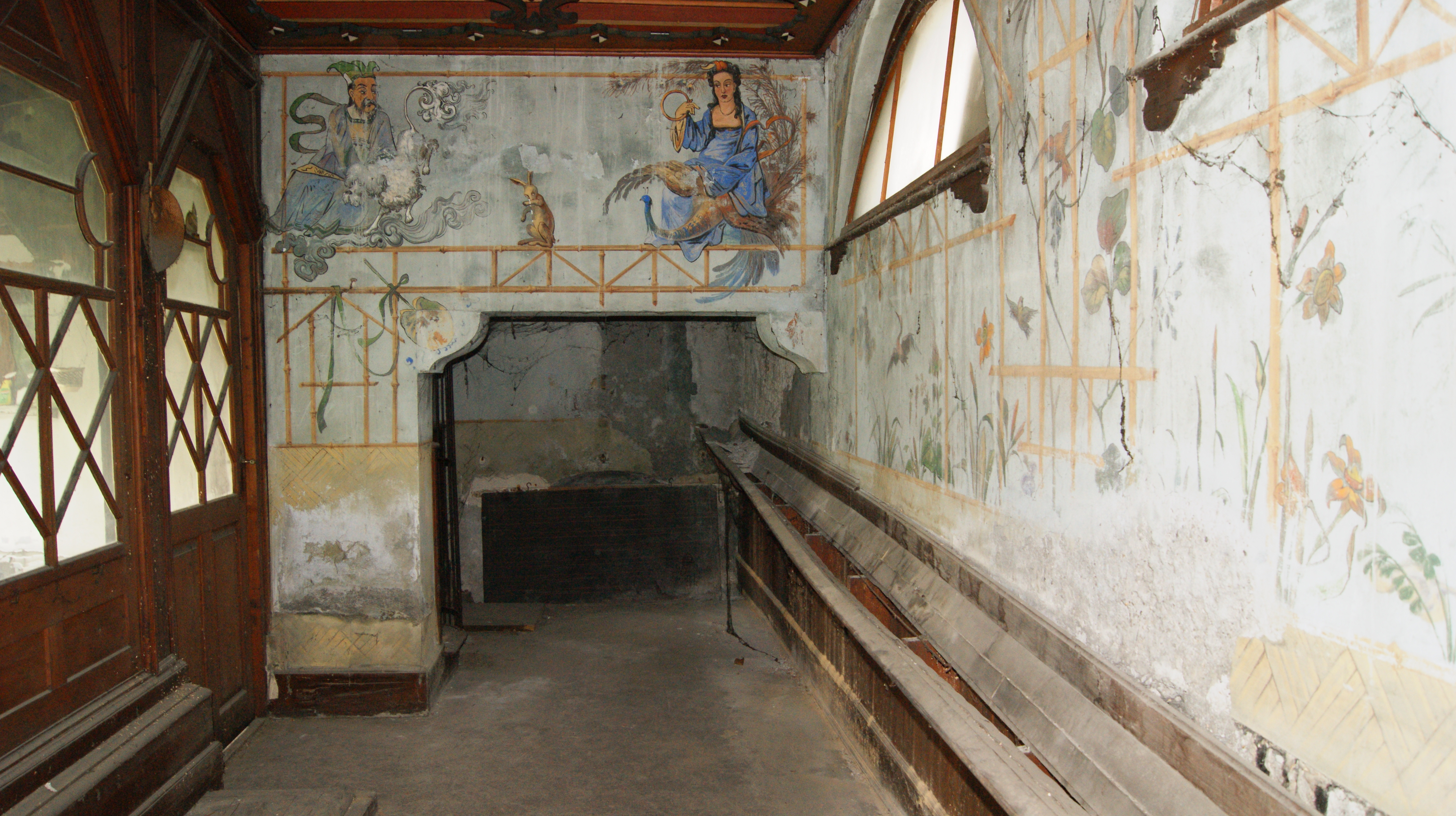 Part of the Japanese style bowling alley in the Villa Ivan Rosenthal, Radetzkystraße No. 1 in Hohenems, Vorarlberg, Austria. Built in 1890, main building with hipped and cross-gabled roof, cube-shaped with klassizisierender entrance section, side wings, Wirtschaftstrakt with half-timbered.